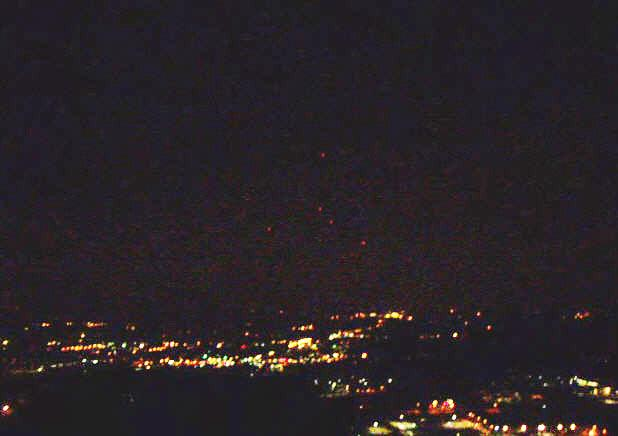 Photo of 5 unidentified red lights over the skies of Morristown, NJ and surrounding towns taken on January, 5th 2009 at around 8:30pm. Photo taken from Morris Plains, NJ. Uploaded per request at Wikipedia:Images for upload.